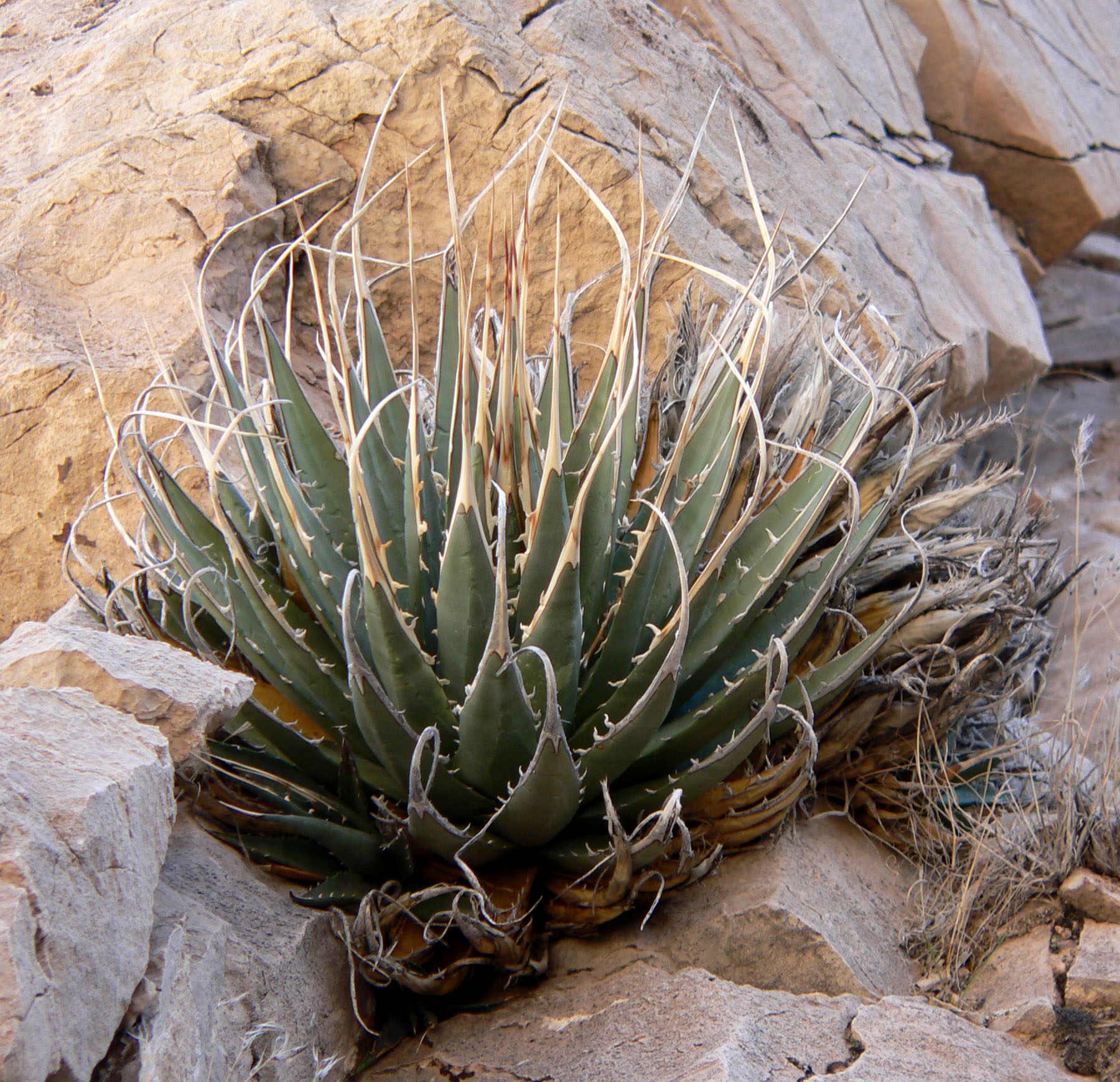 Agave utahensis var. eborispina on Frenchman Mountain, east of Las Vegas, Nevada